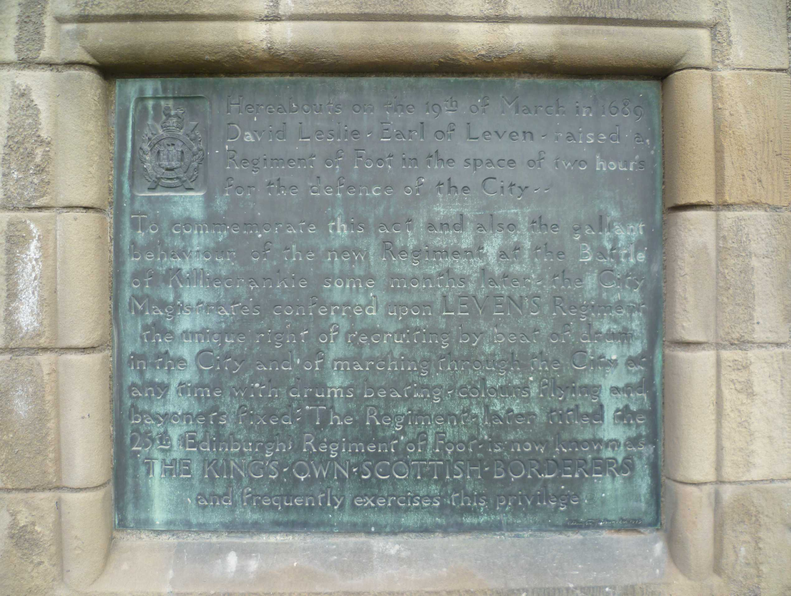 "Hereabouts on the 19th March in 1689 David Leslie, Earl of Leven, raised a Regiment of Foot in the space of two hours for the defence of the City. To commemorate this act and also the gallant behaviour of the new Regiment at the Battle of Killiecrankie some months later, the City Magistrates conferred upon LEVEN'S Regiment the unique right of recruiting by beat of drum in the City and of marching through the City at any time with drums beating, colours flying and bayonets fixed: the Regiment, later titled the 25th Edinburgh Regiment of Foot, is now known as THE KING'S OWN SCOTTISH BORDERERS and frequently exercises this privilege."